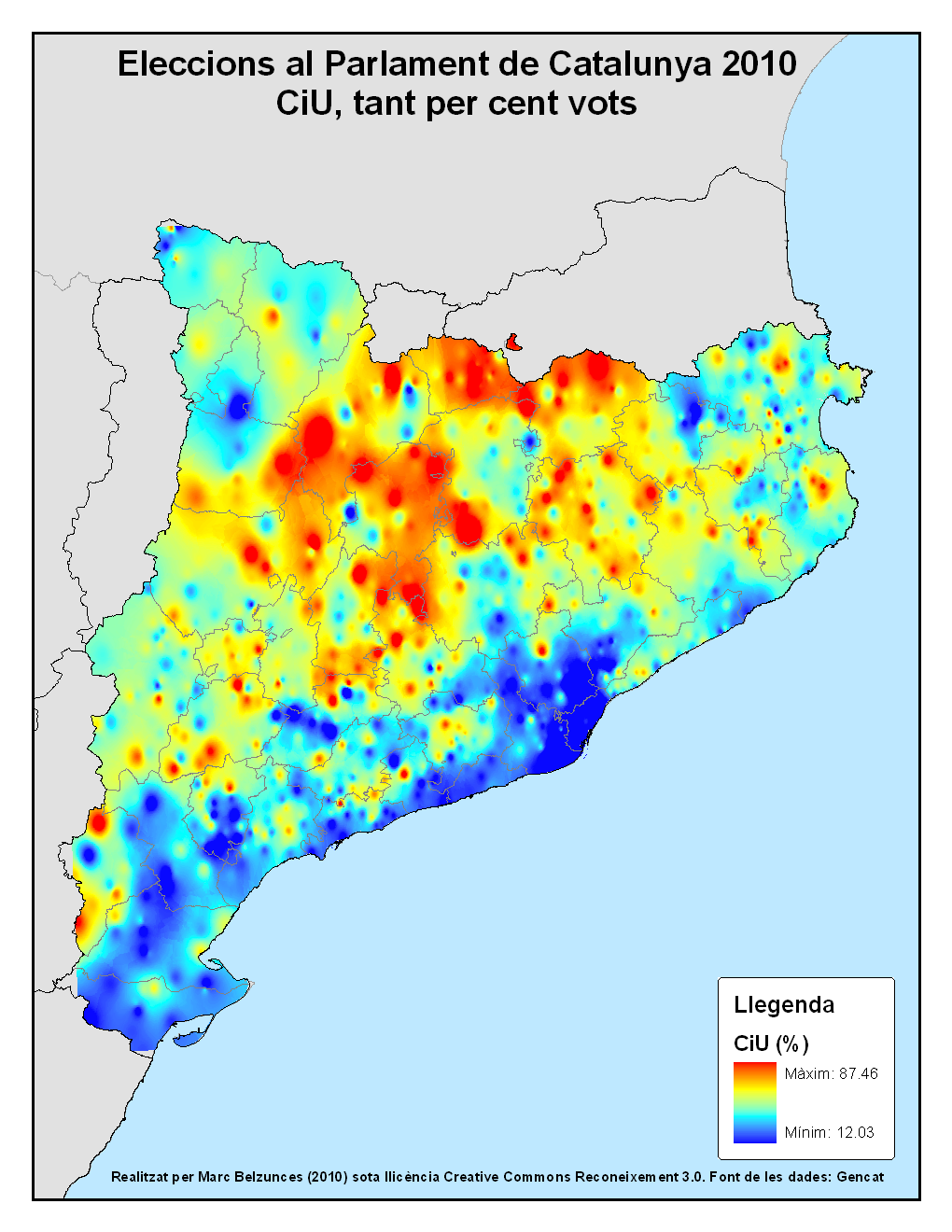 Distribution of vote to CiU party in elections to the Parliament of Catalonia 2010.